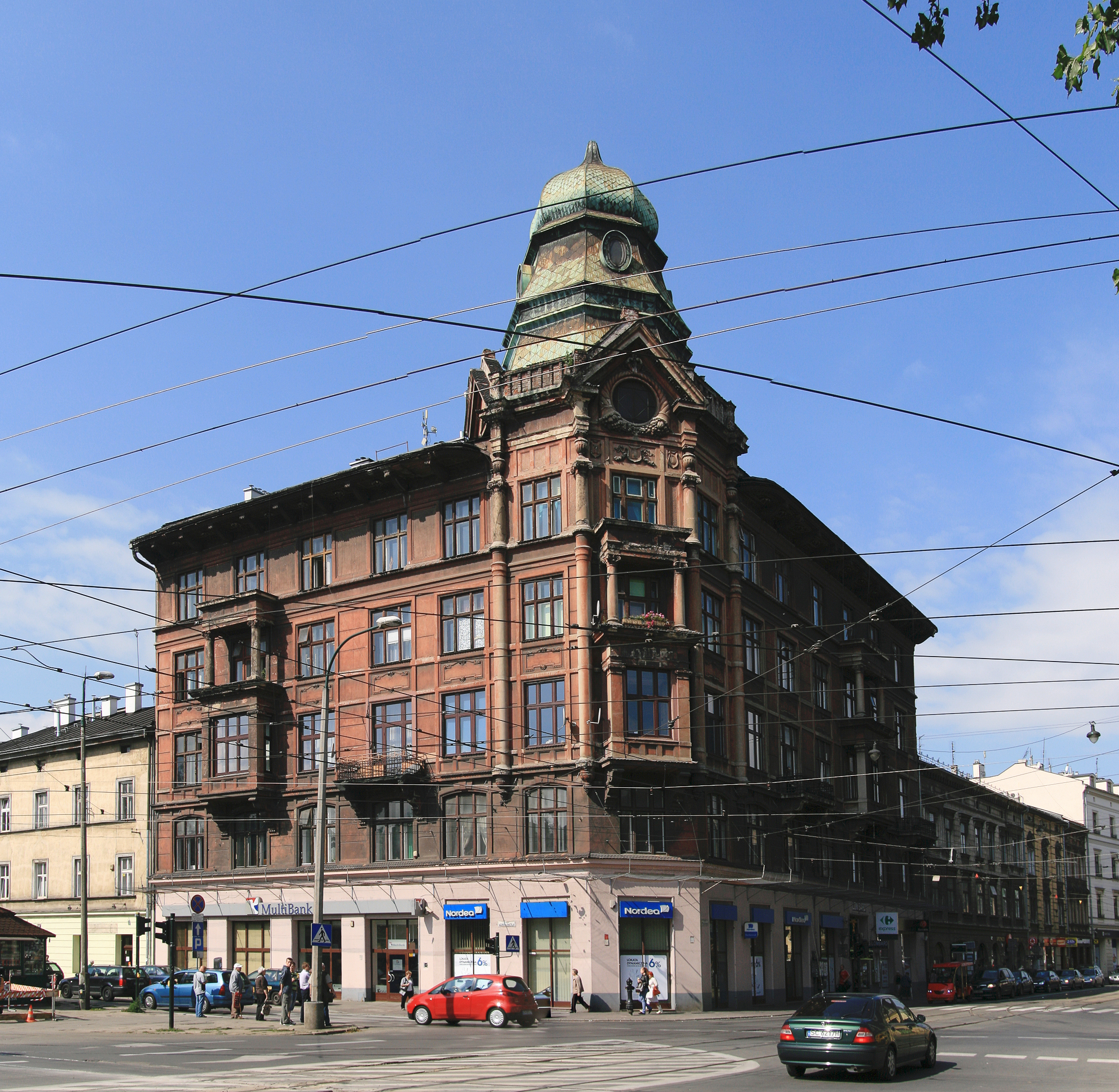 Ohrenstein House, ul. Dietla 42, Krakow